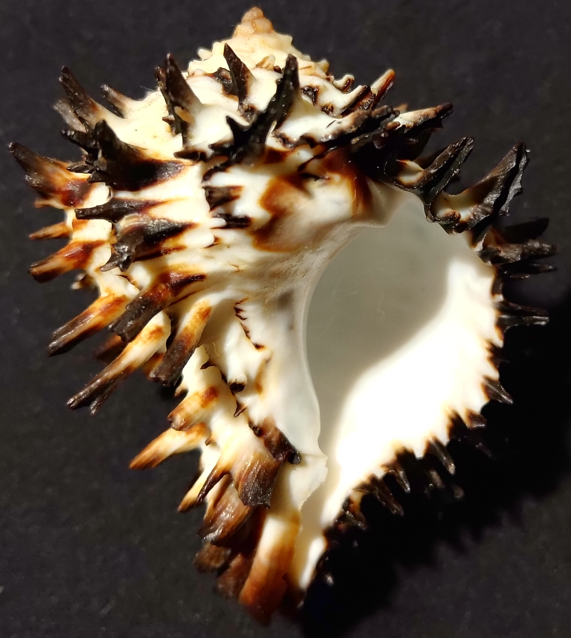 Hexaplex ambiguus, Front